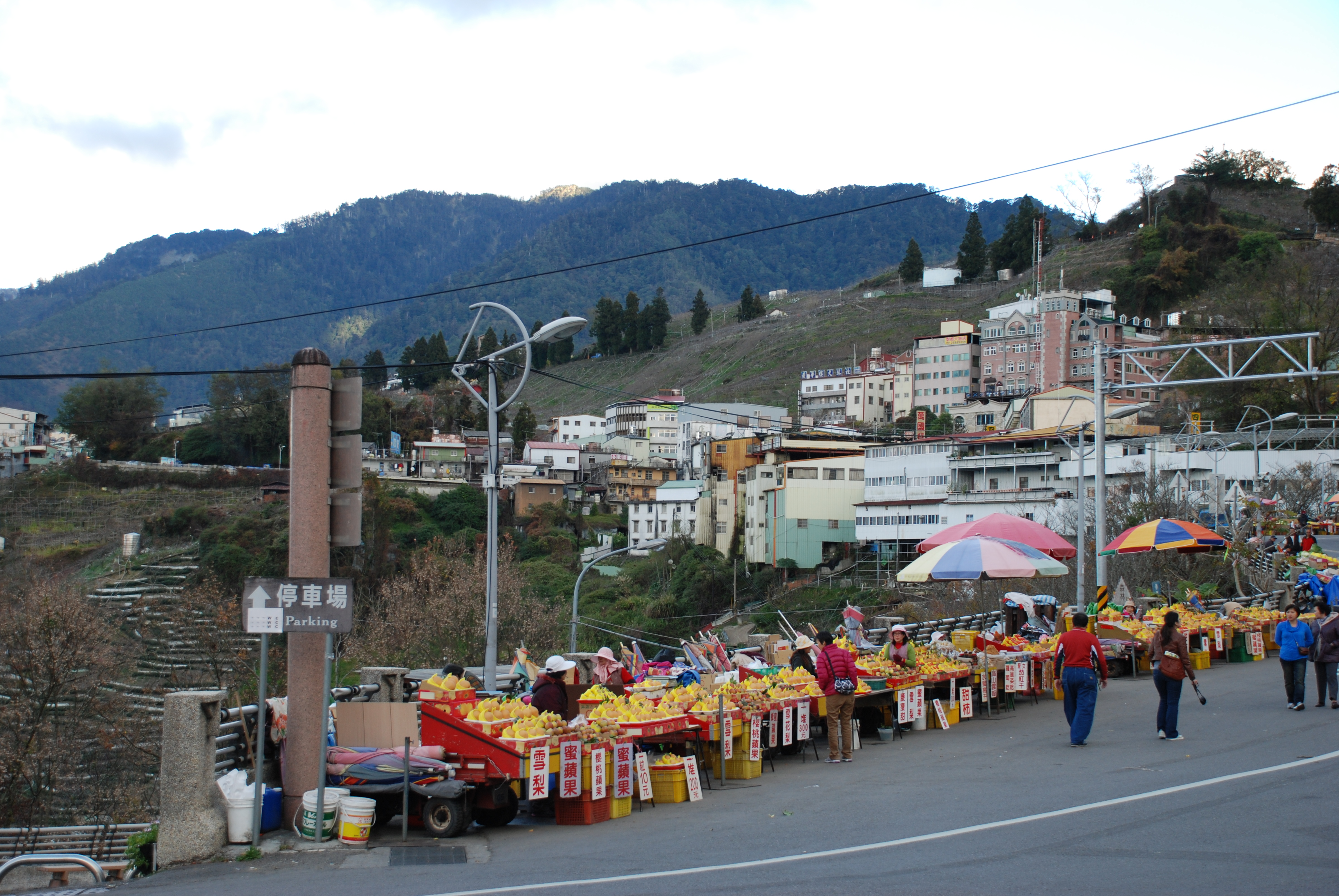 Li Shan (Pear Mountain) is located in central Taiwan in Taichung County. It is named after the abundant pear orchards that were the mainstay of the area's economy for many years, and although there are still many fruit orchards in the region it is now famous for its superb tea - the most expensive in Taiwan.